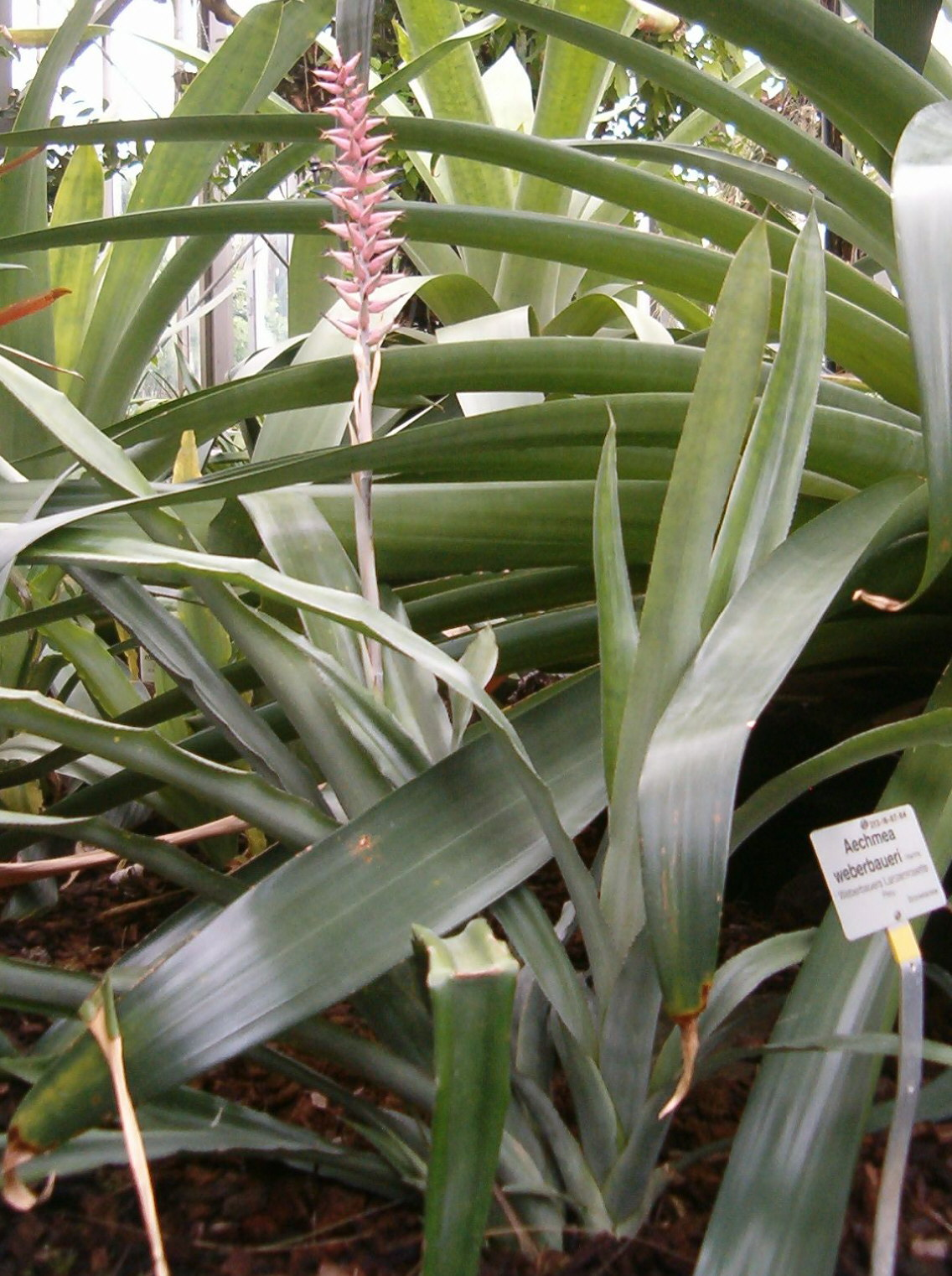 Species Aechmea weberbaueri Aechmea weberbaueri Inflorescences in the Botanical Gardens Berlin Dahlem